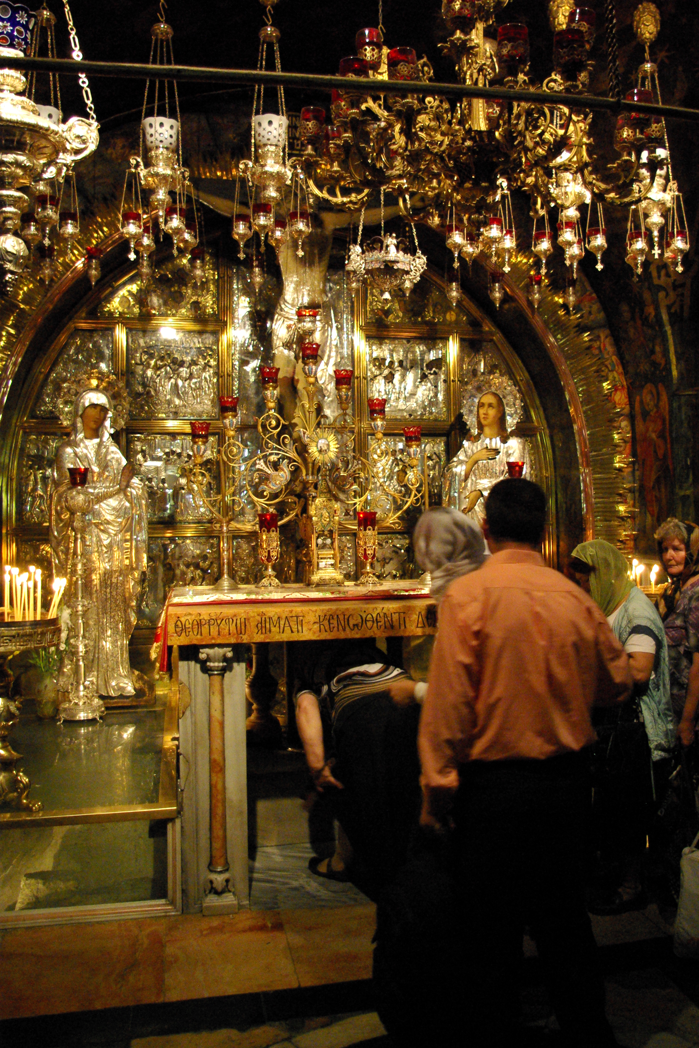 The site of Golgotha (presumed place of the crucifixion of Christ), Church of the Holy Sepulchre, Jerusalem